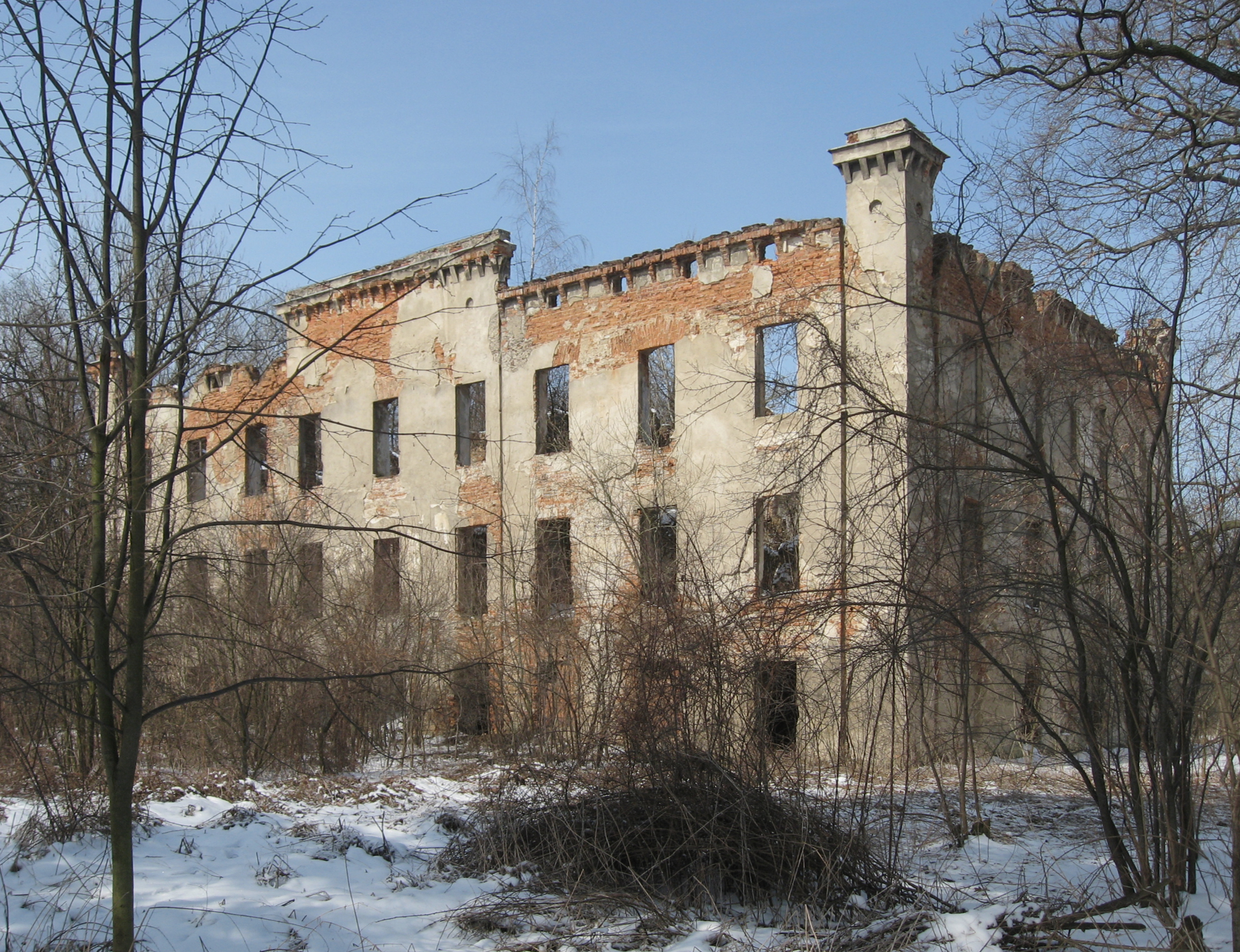 Castle in Milikowice (Arnsdorf), Lower Silesia